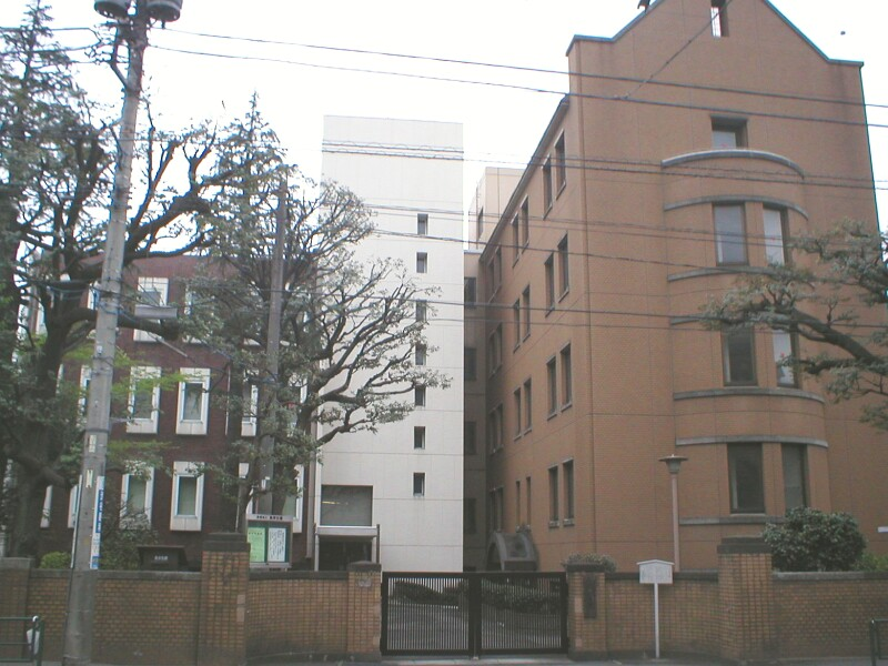 財団法人東洋文庫（東京都文京区）The Toyo Bunko (The Oriental Library), Bunkyo, Tokyo.